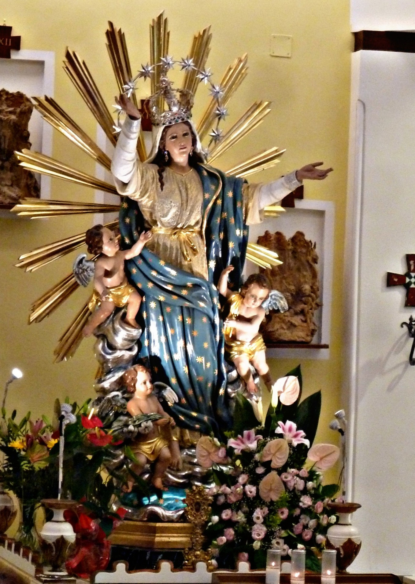 Statue of Our Lady of the Assumption, venerated in Nice of Sicily.